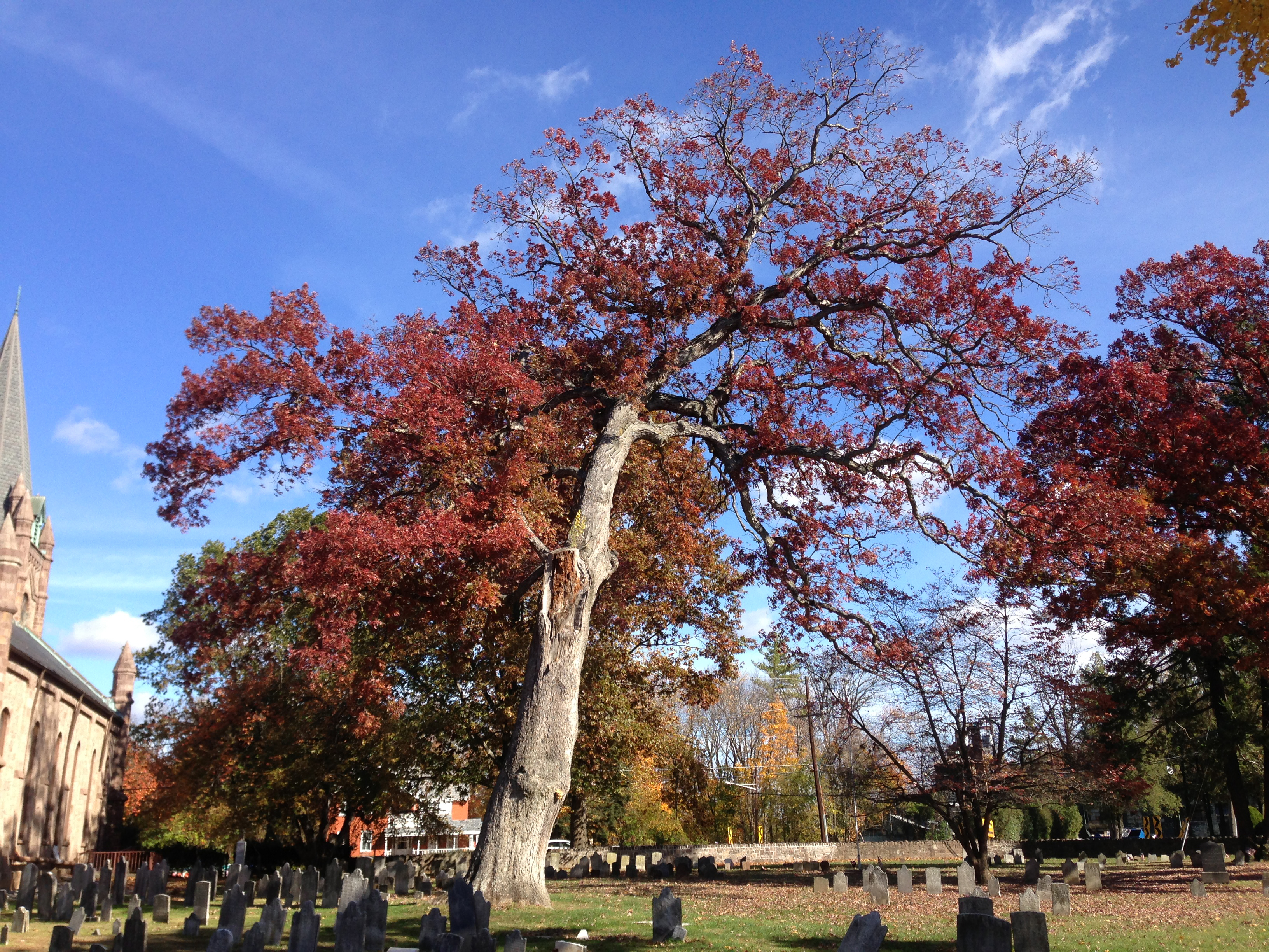 Old White Oak during autumn at the Ewing Presbyterian Church Cemetery in Ewing, New Jersey